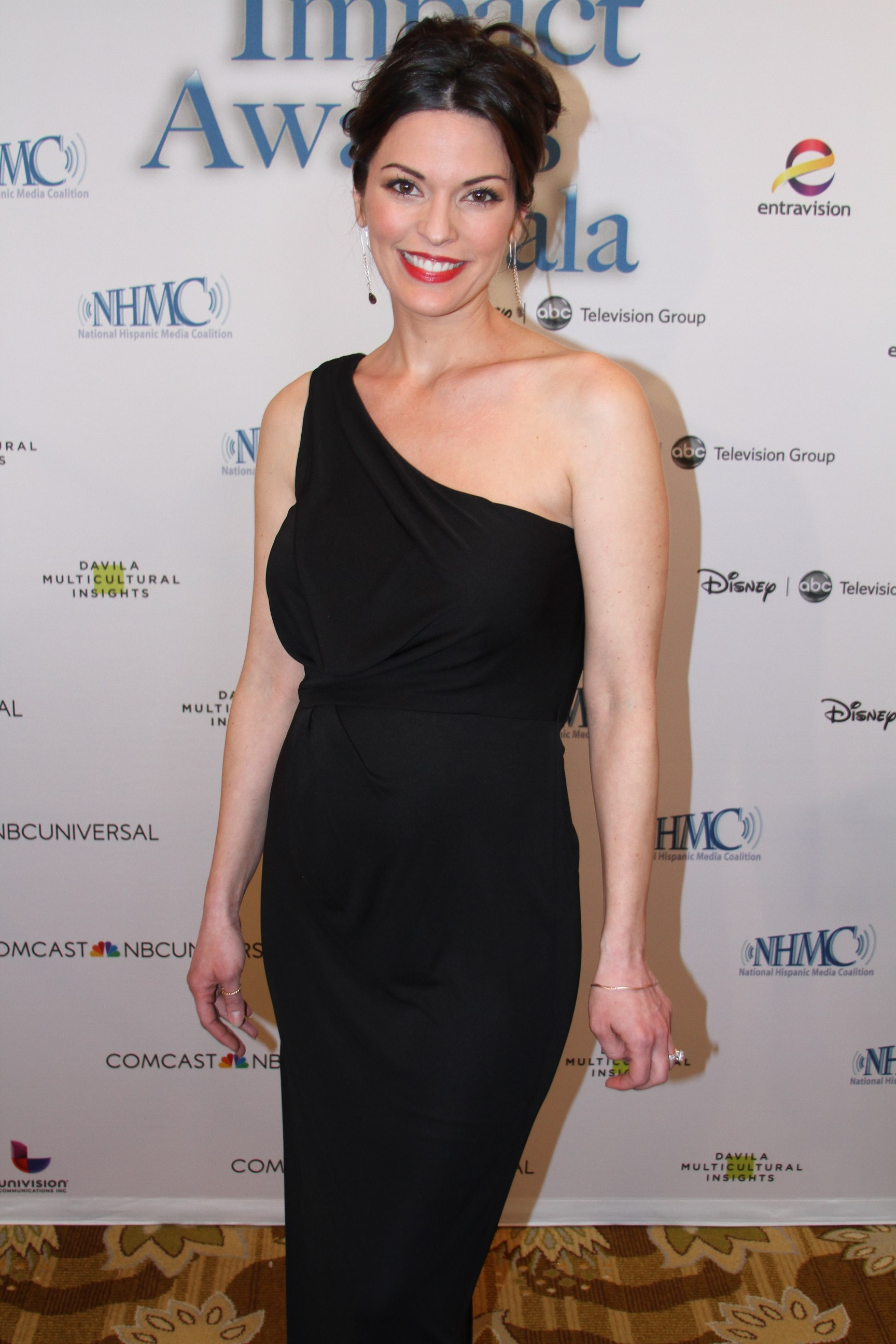 National Hispanic Media Coalition, 16th Annual Impact Awards Gala